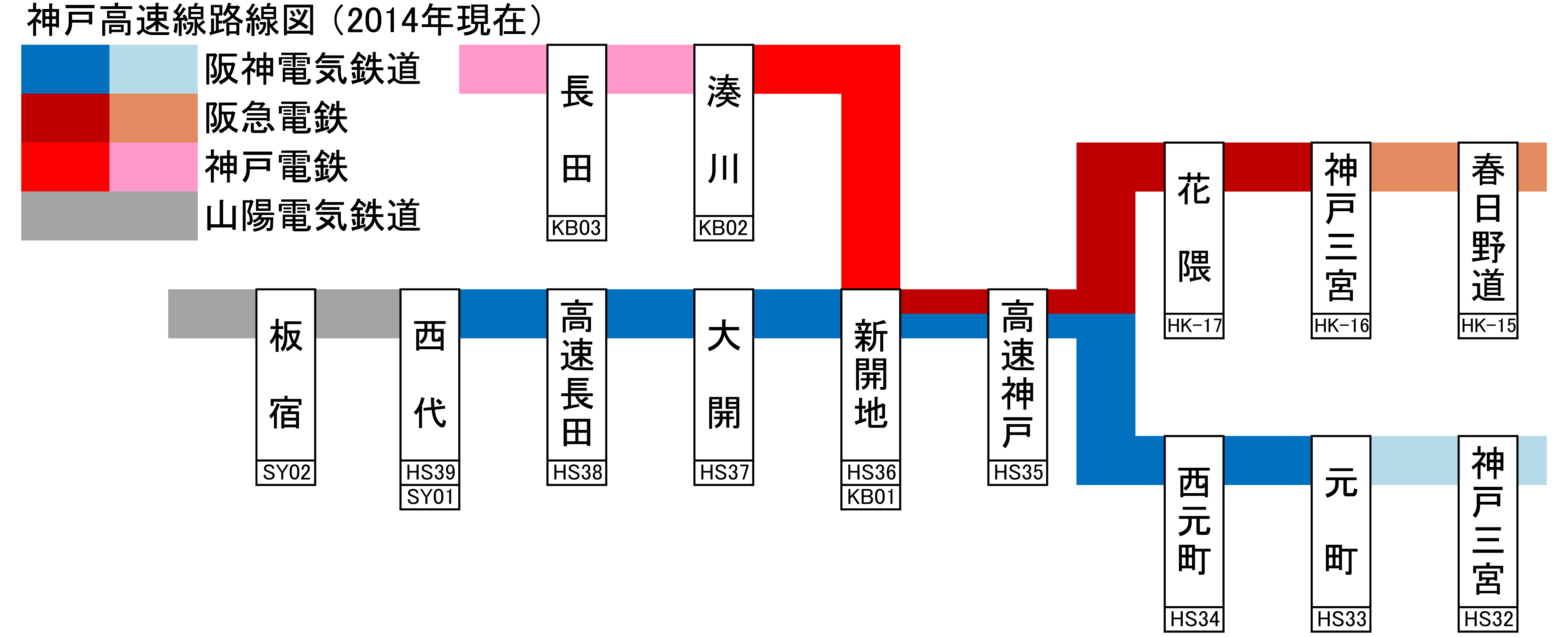 Kobe Kosoku Line Map